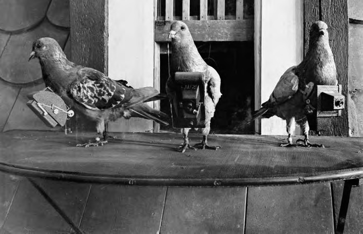 Julius Neubronner's tiny cameras strapped to homing pigeons.